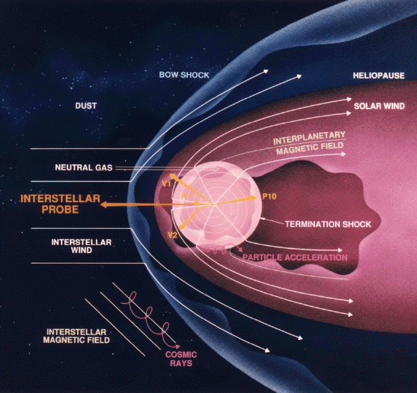 Diagram showing heliosphere with planned path of an interstellar probe.